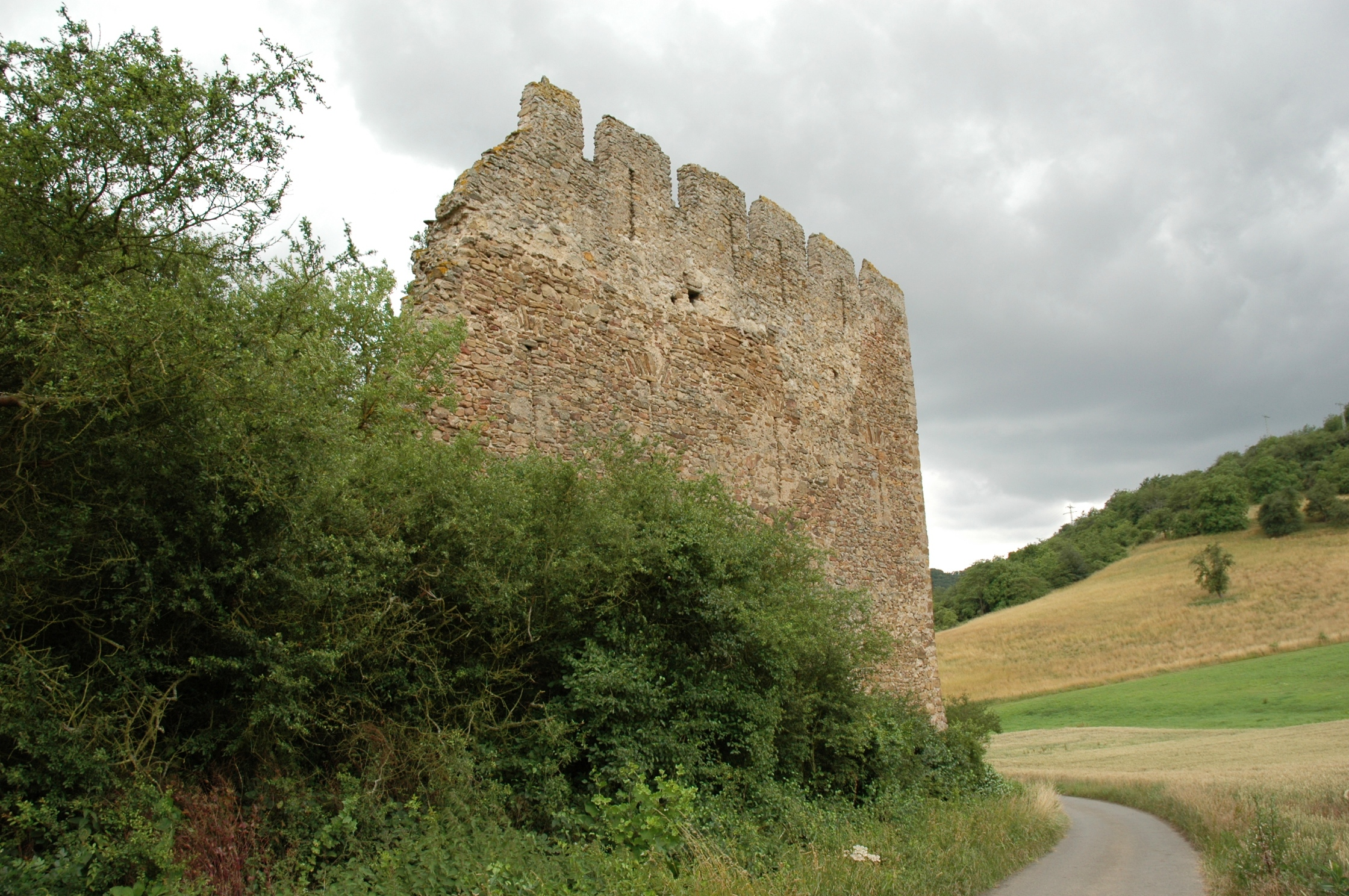 Ruins of the fortress Lewenstein or Löwenstein in the region Palatinate of Germany